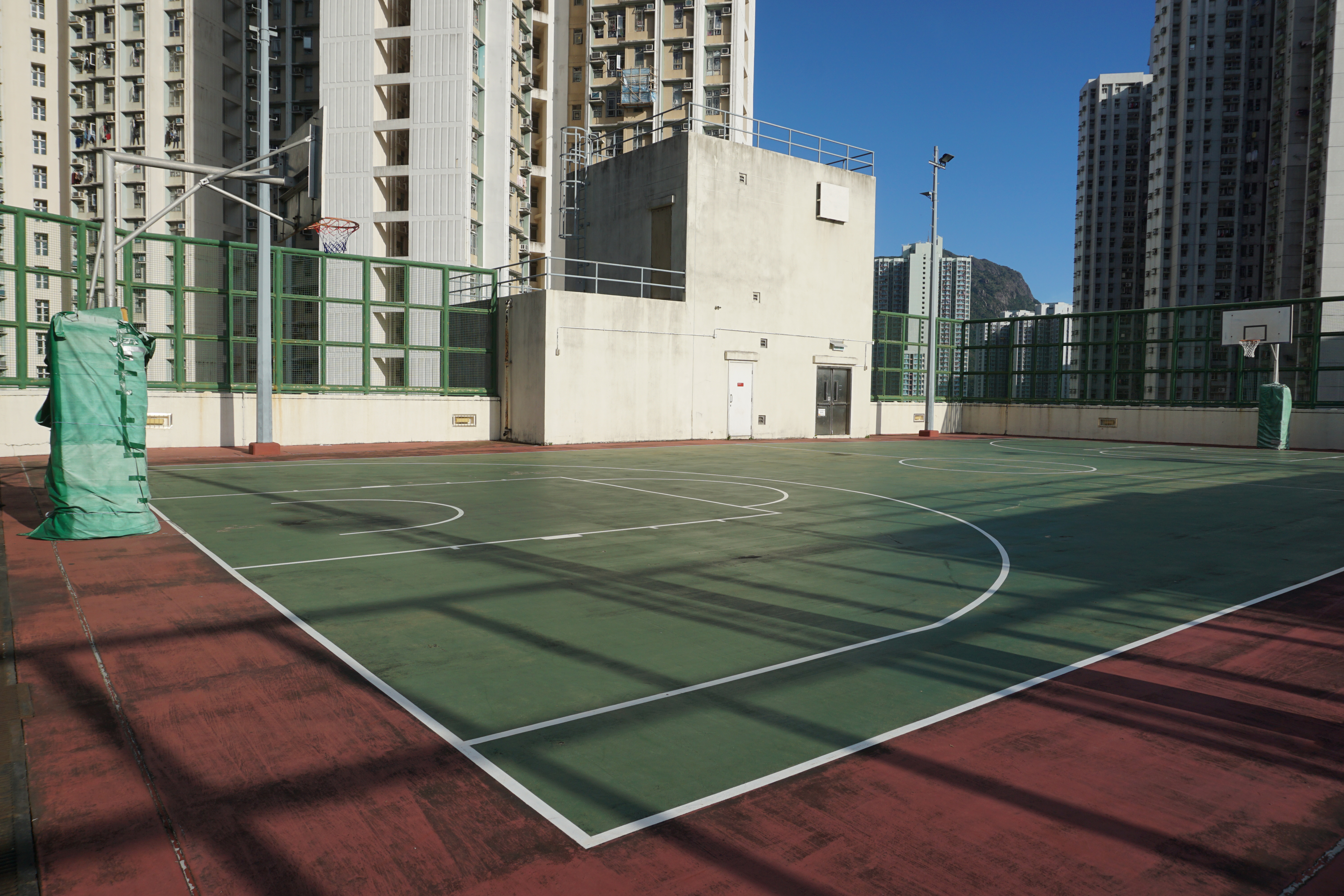 Tsz Oi Court in Tsz Wan Shan, Hong Kong.